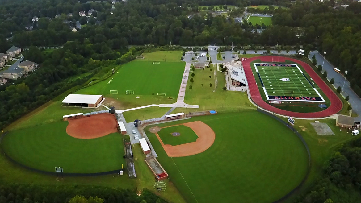 MPCS PAC